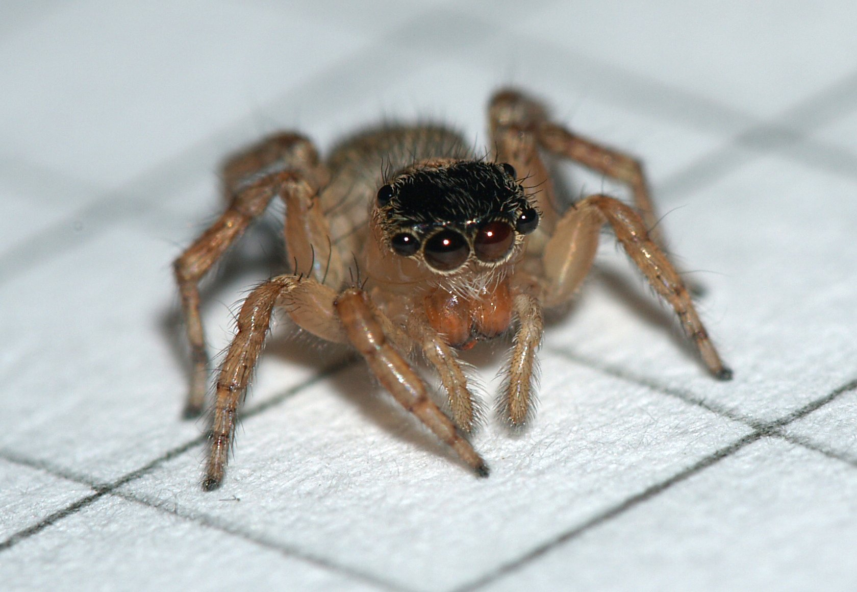 female Saitis barbipes from Menton, French Riviera (43°46′32″N 07°30′02″E / 43.77556°N 7.50056°E). One square on paper has a side length of 5 mm.